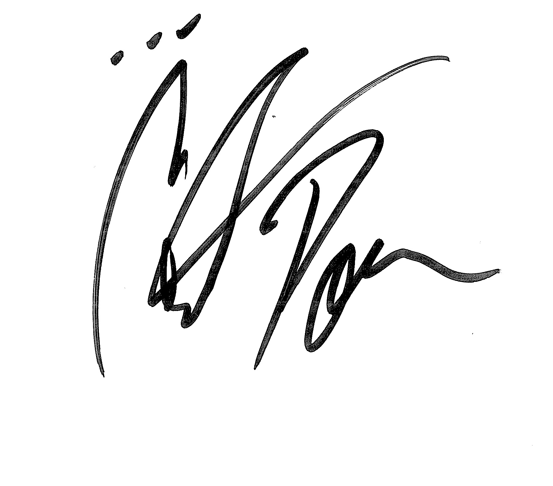 Autograph of professional wrestler Cat Power